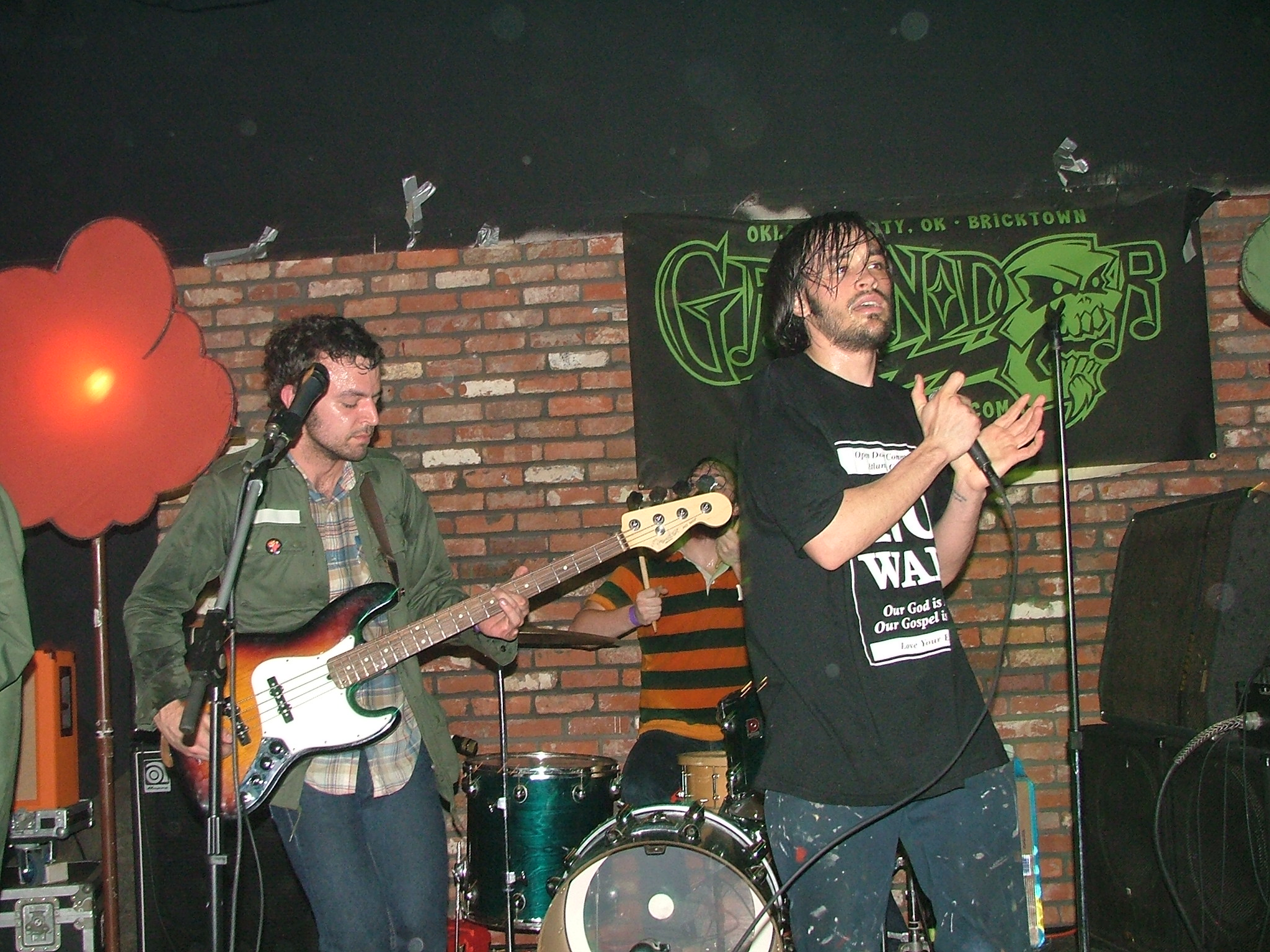 mewithoutYou playing at the Green Door in the Bricktown district of Oklahoma City on March 19, 2005.